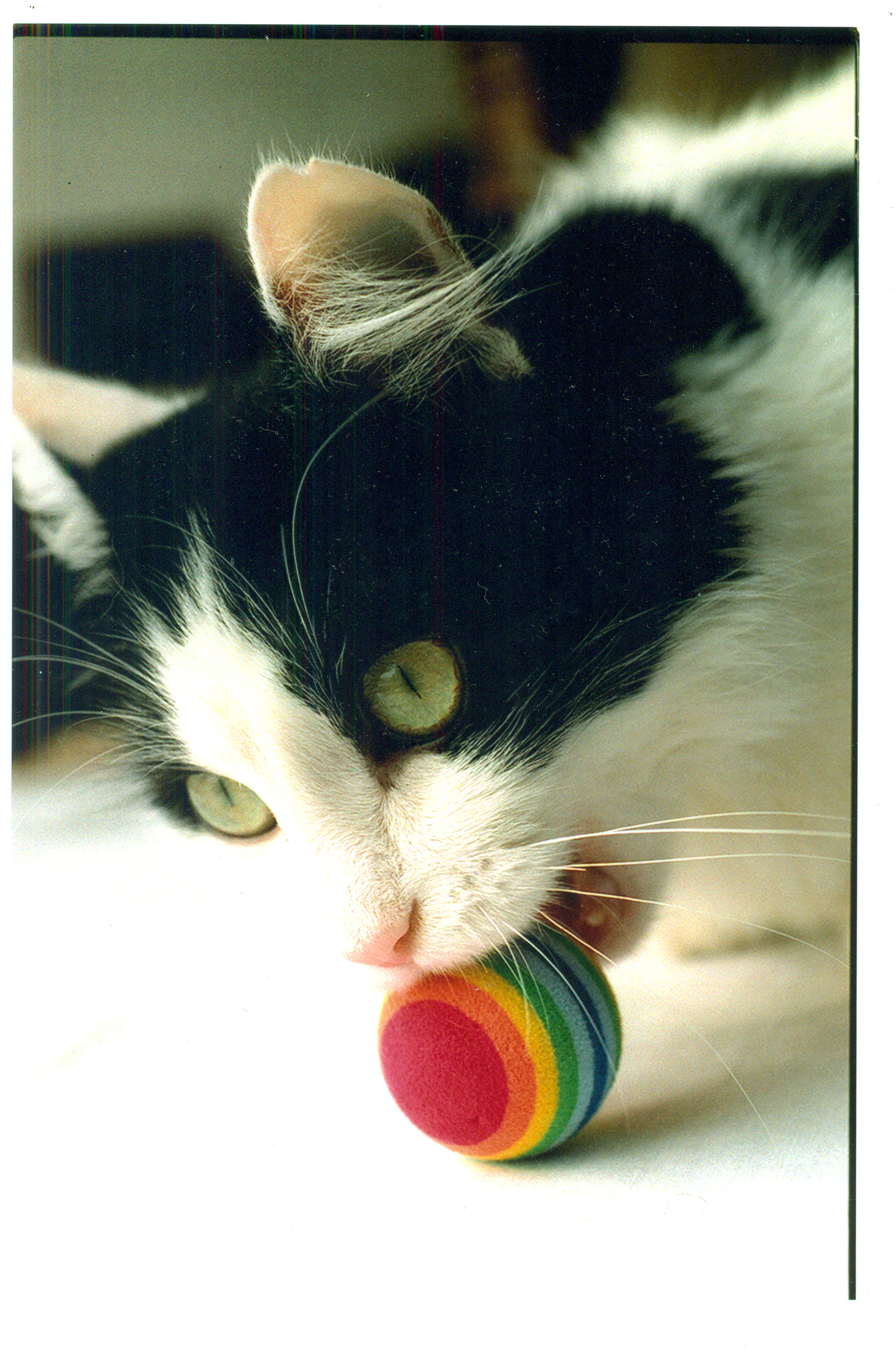 Cat and ball. Photo by Nancy Wong, 1995